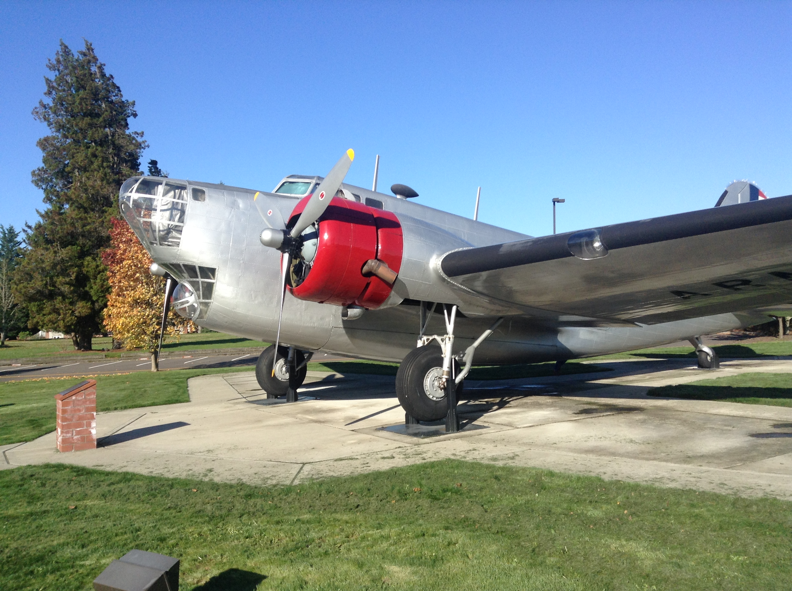 Douglas B-18 Bolo JBLM